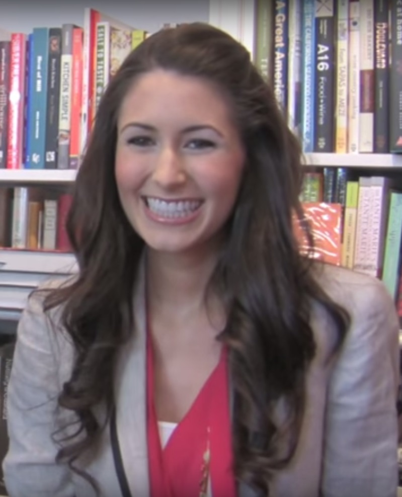 American vegan chef Chloe Coscarelli, interviewed by Michelle Cehn for Vegan Break at a San Francisco Book Signing.